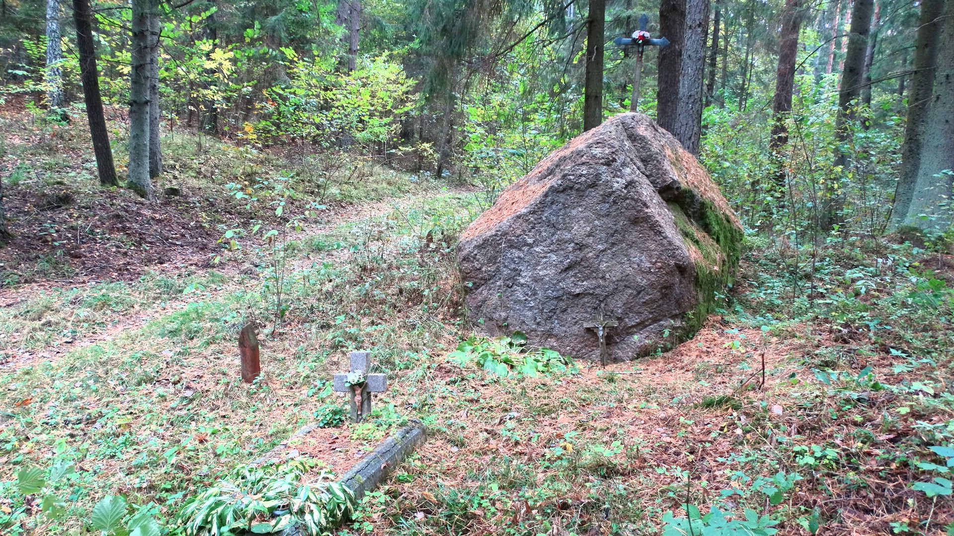 Šiauliškiai stone, Prienai District, Lithuania